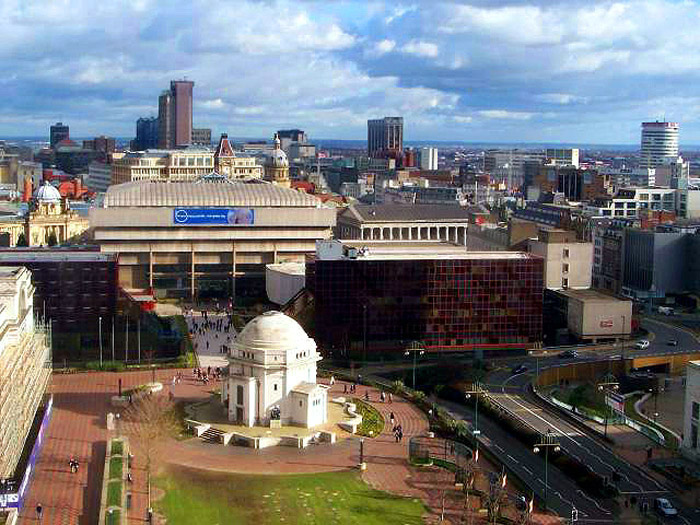 Birmingham (UK) skyline from above Centenary Square. Shows the cylindrical Rotunda at far right, Hall of Memory war memorial to the fore, black and red rectilinear Copthorne Hotel behind with the Central Library in the centre (looks like an "incinerator for burning books", said Prince Charles). The clock tower of the Birmingham Museum & Art Gallery and columns of the classical Town Hall are visible, as is Baskerville House, scaffolded, to the left. The tallest building visible is the tower of NatWest bank. Photograph originally by User:Andy G see the original version (Delete all revisions of this file) (cur) 23:16, 31 December 2004 . . G-Man (Talk / contribs / block) . . 700×525 (152,460 bytes) (Enhanced and re-sized version of User:Andy G's photograph)